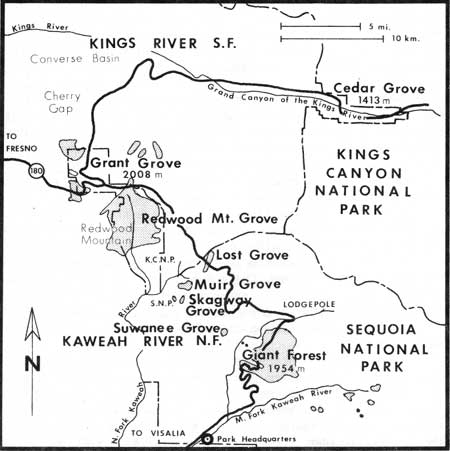 Map of major Sequoia groves in the vicinity of Sequoia National Park